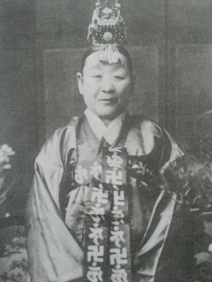 Choi song seol dang picture